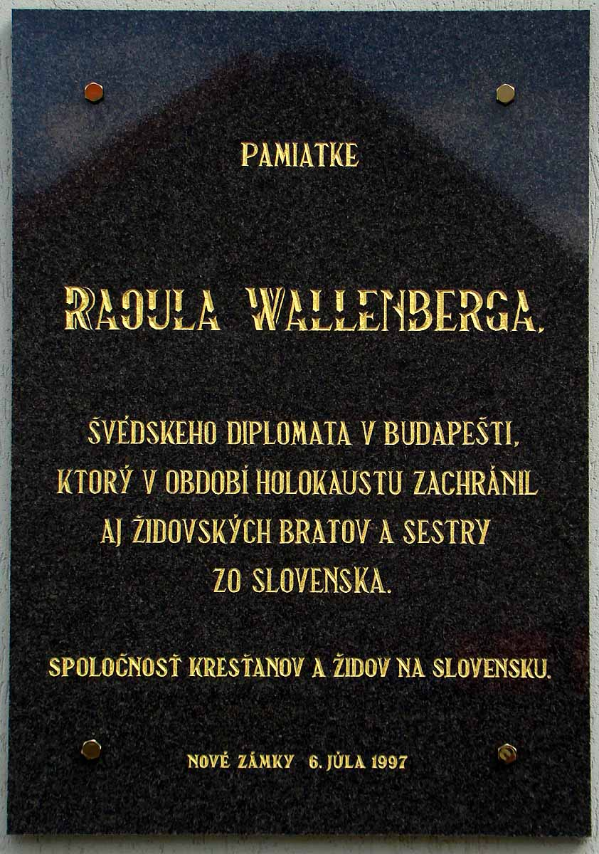 Memorial plaque of swedish diplomat Raoul Wallenberg next to the synagogue in Nové Zámky. Inscription: For the memory of Swedish diplomat in Budapest Raoul Wallenberg who during the time of holocaust saved Jewish brothers and sisters from Slovakia. Association of Jews and Christians in Slovakia. Nové Zámky 6th July 1997